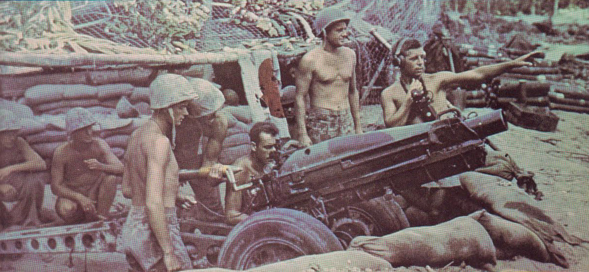 U.S. Marines with 75 mm gun on Bougainville island.